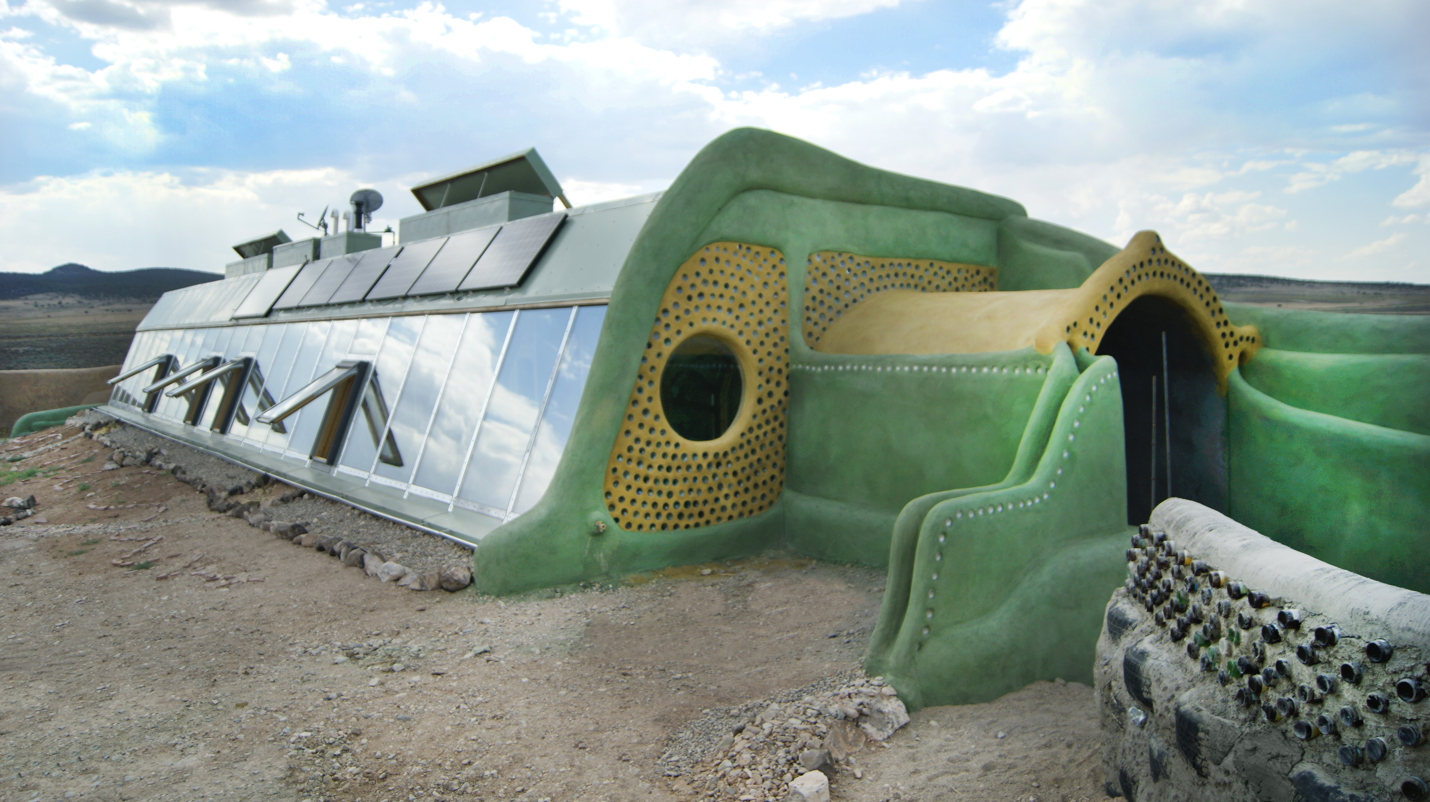 South and east side of an Earthship passive solar home.